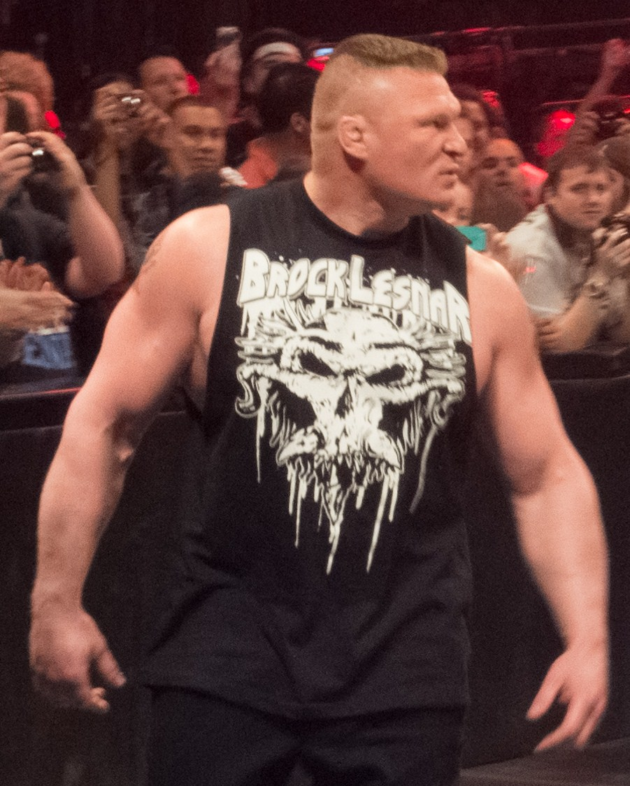 Brock Lesnar at the WWE Raw taping in 2 April 2012.